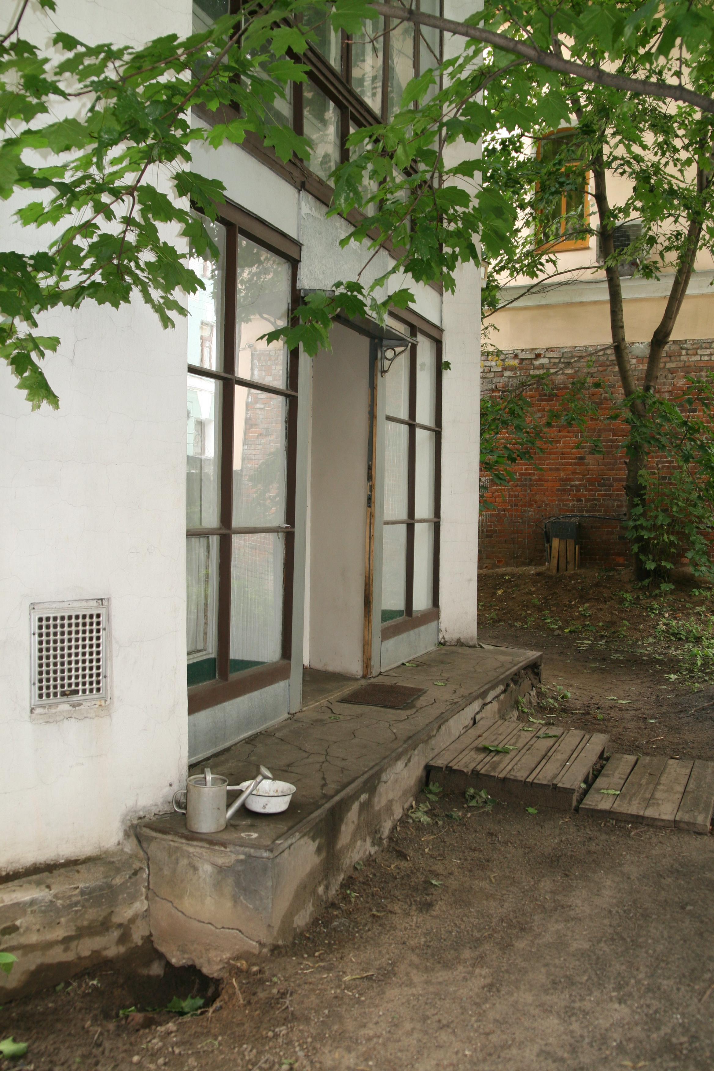 Melnikov House